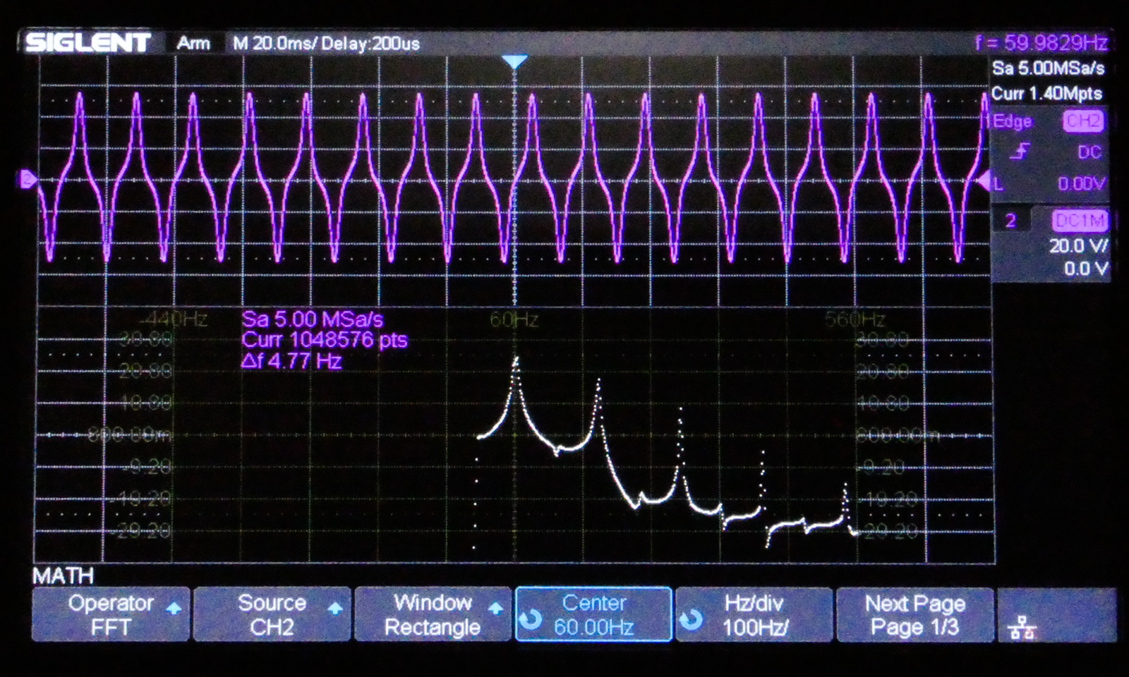 This is the typical magnetic amplifier spectral performance with source of 120 VAC RMS and 60 Hz. Output waveform is approximately 60 V RMS. FFT Frequency spectrum (white) shows magnitude of several odd harmonics.